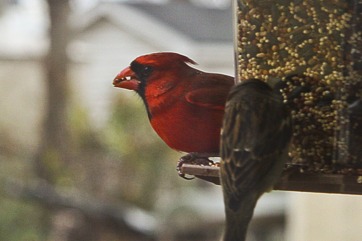 A male Cardinal eating seed at a bird feeder in Louisiana, United States of America